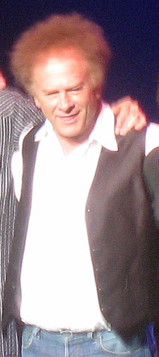 Art Garfunkel still has the hair!